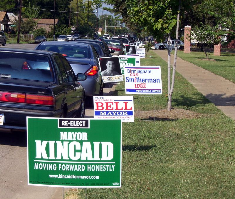 A sampling of the signs surrounding Ensley Park during Saturday's Community Block Party.